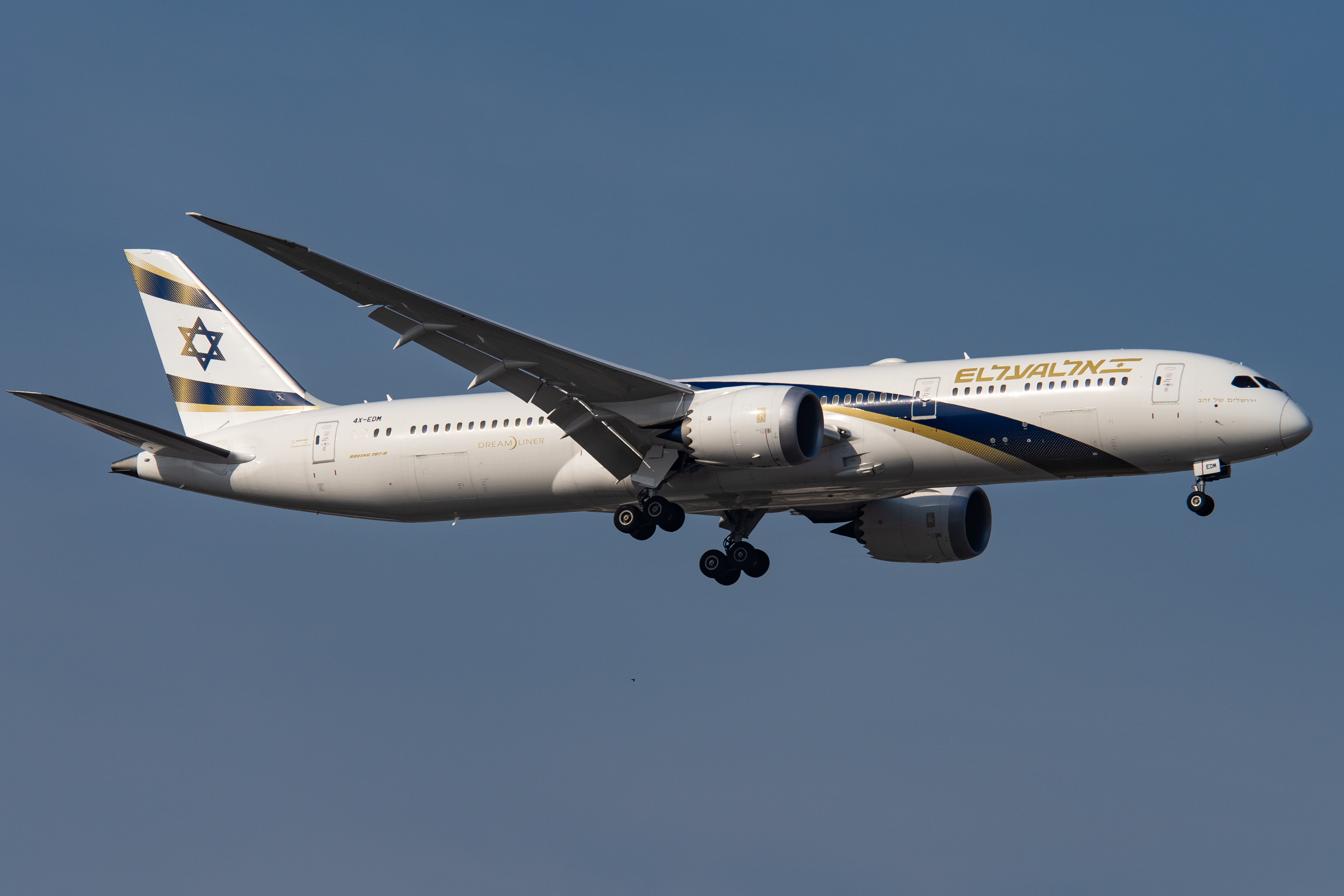 El Al 095 from Tel Aviv. What? Israel to Beijing today? Arriving in morning? Well, the "Jerusalem of Gold" turned out to be the first El Al 787-9 to visit Beijing today, but this LY95 is not that regular LY95... On 22:00, it will depart as LY96 with medical supply on board.